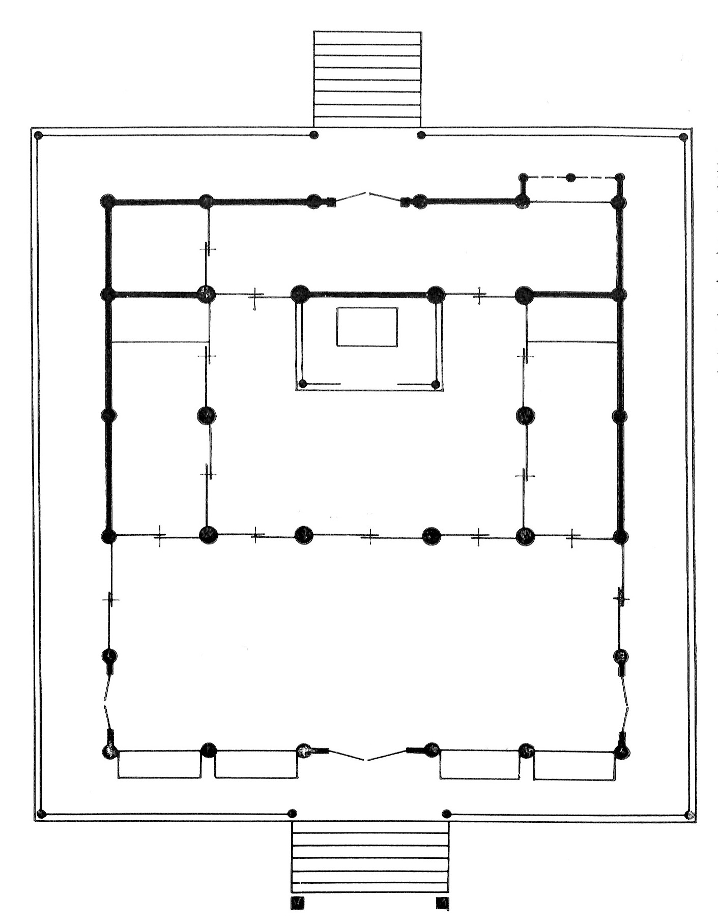 Layout of Shinchokoku-ji, Japan